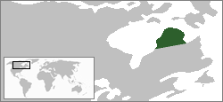 Locator map of the Ungava Peninsula